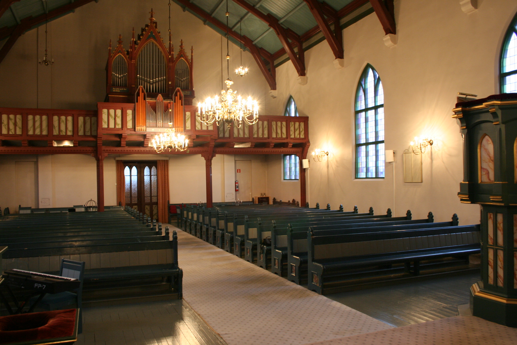 Skoger church, Drammen, Norway, organ